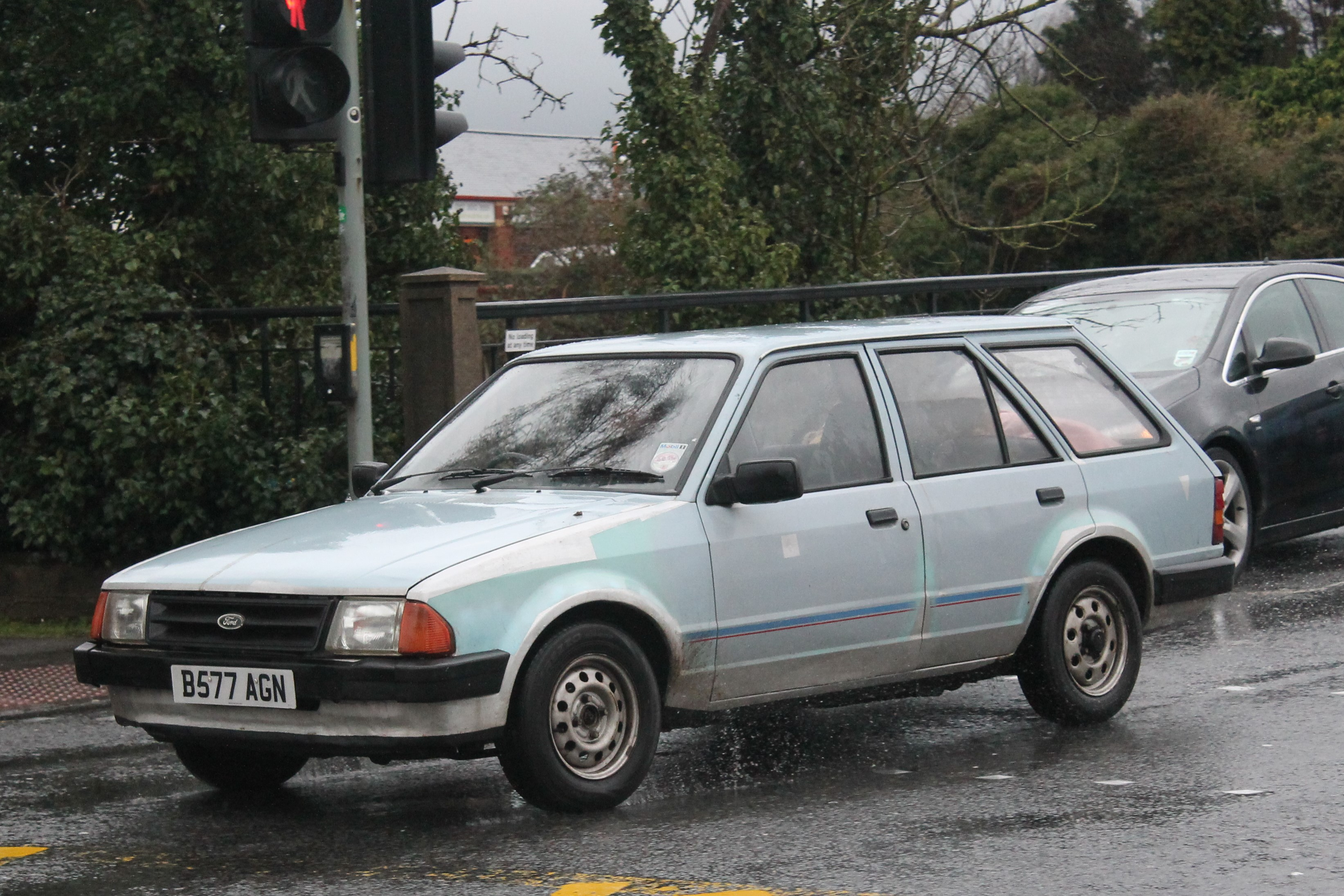 Can't believe I found another Mk3 base estate! I still haven't spotted a single hatchback, but that makes three of the estates in the last twelve months. This example looked very well used, and had several shades of light blue all over it. Clearly the workhorse, being used in the pouring rain. A lucky catch- it fortunately was stopped at the traffic lights when I saw it. I was worried a car would cut in front too. Sorry everyone for the lack of uploads- I handed in my laptop a couple of weeks ago to get photos transferred from my dead Apple iMac to this, but it took them ages to do it, and at the end I was given a hefty bill for £114. Wasn't best pleased seeing as they quoted me £30....